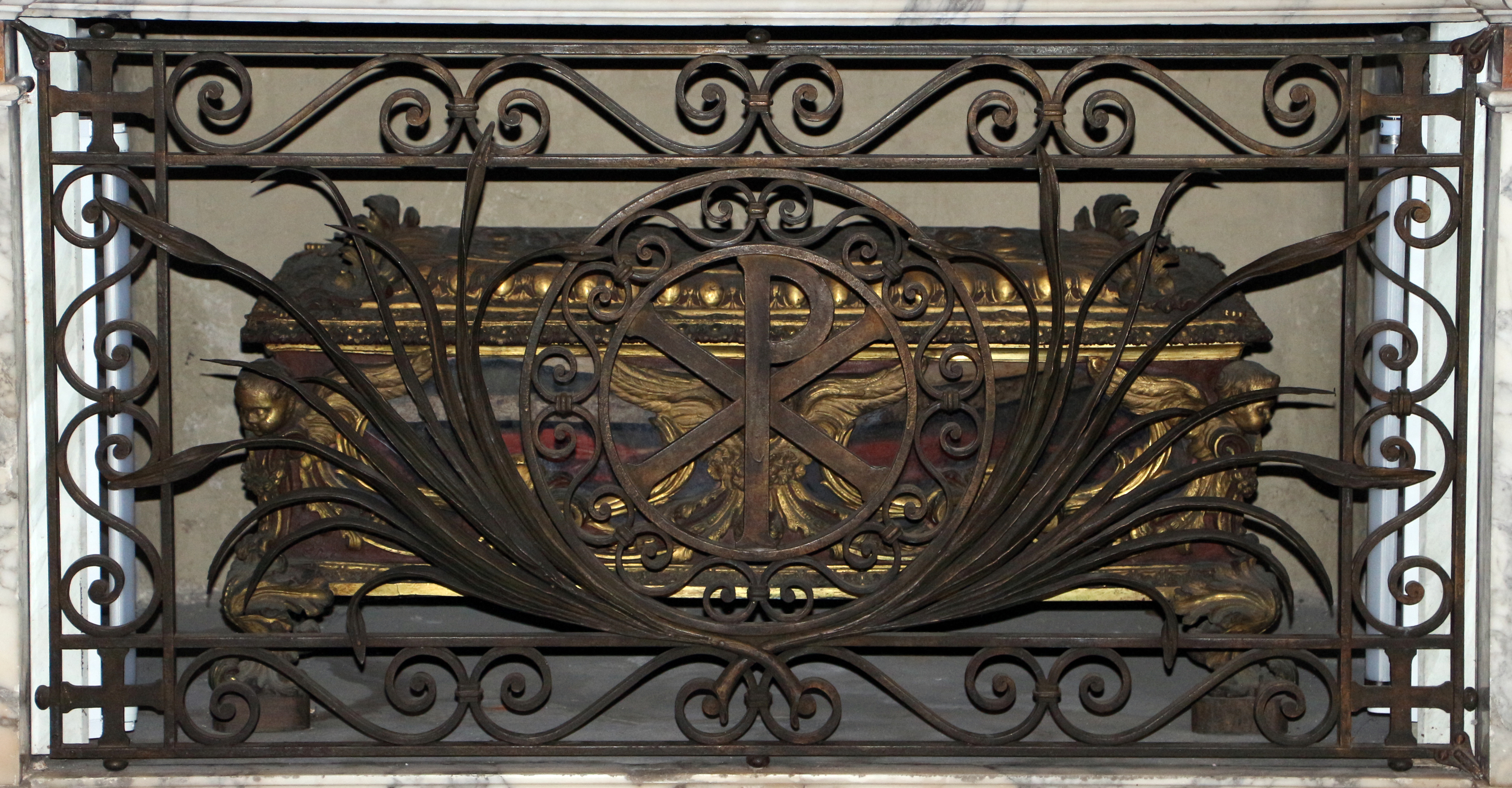 San Lorenzo in Lucina (Rome) - Interior